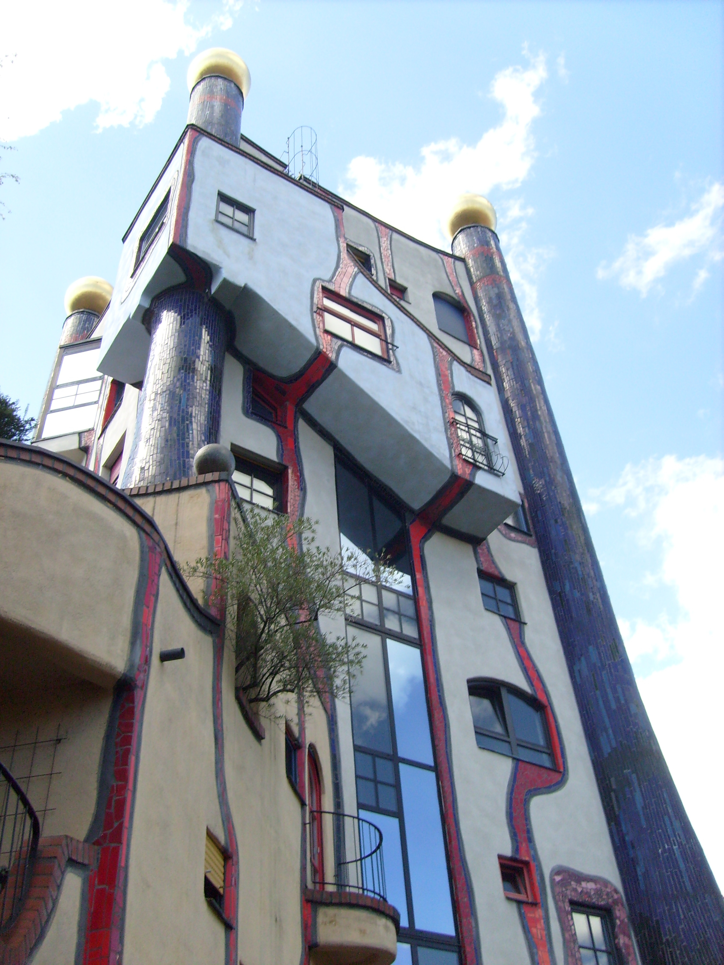 The Hundertwasser house in Plochingen, Germany